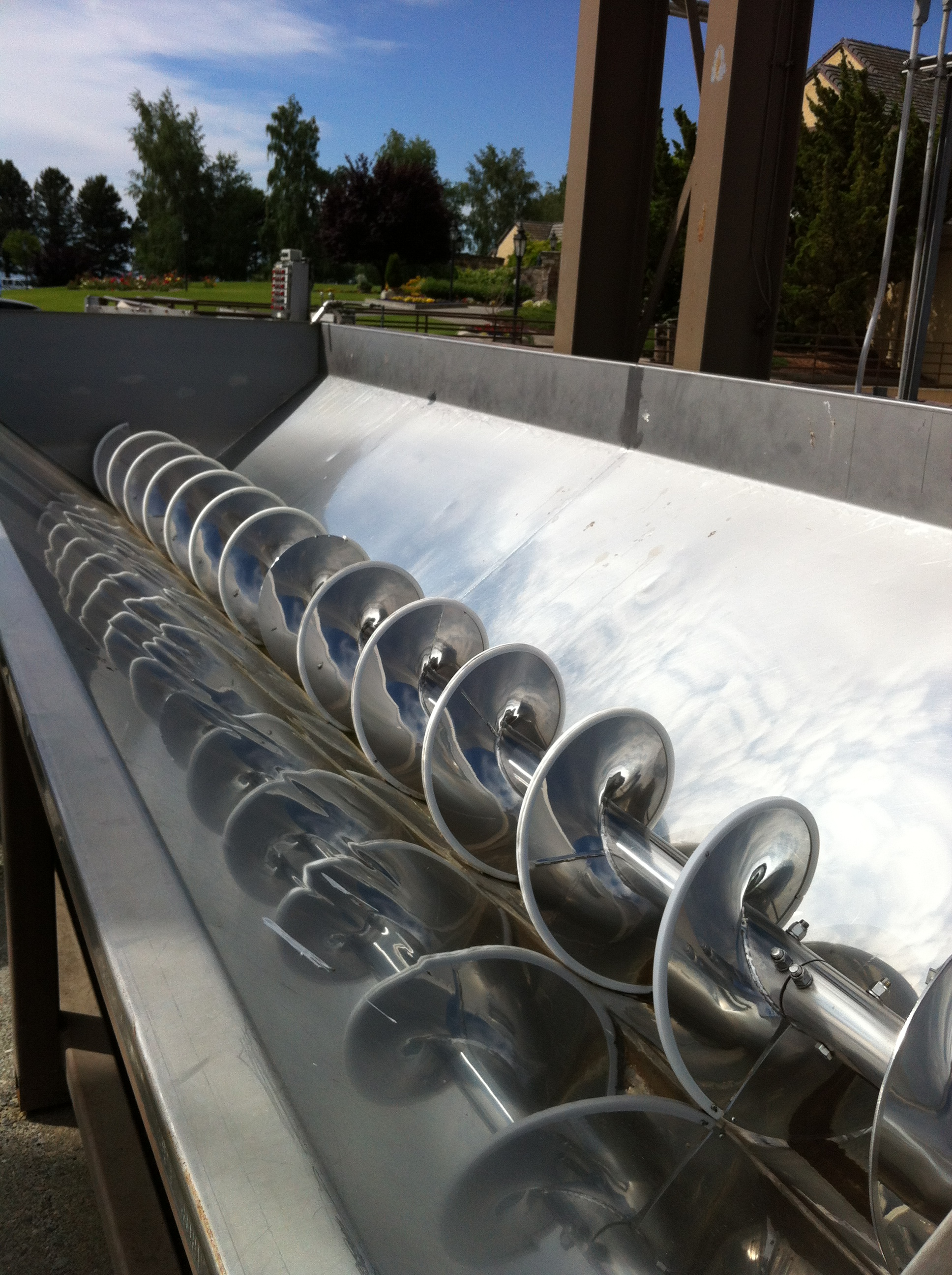 The auger device that receives freshly harvested grapes at the crush pad of at Columbia Crest winery in Patterson, Washington.